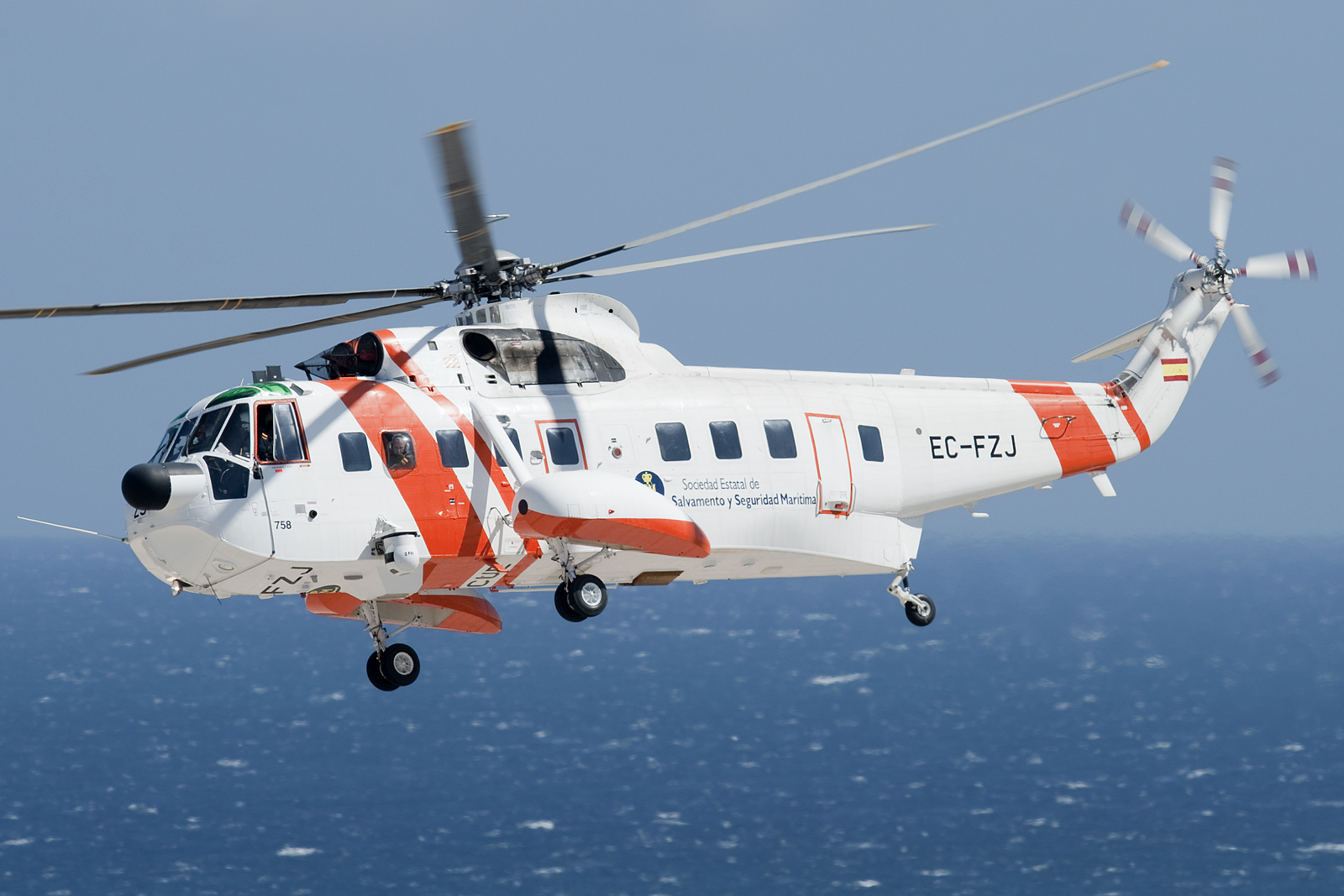 at Gando Airport